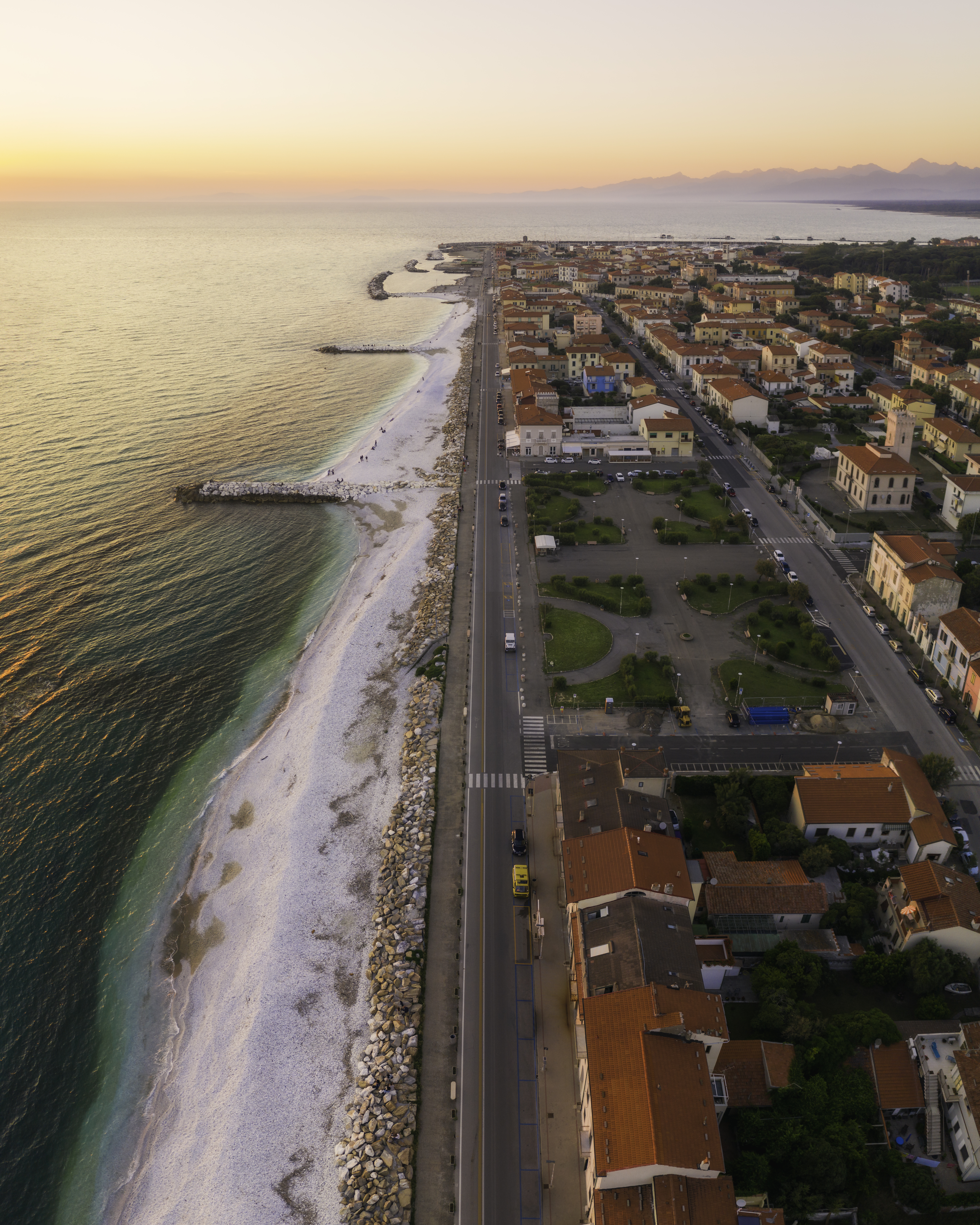 Aerial landscape of Marina di Pisa at the golden hour